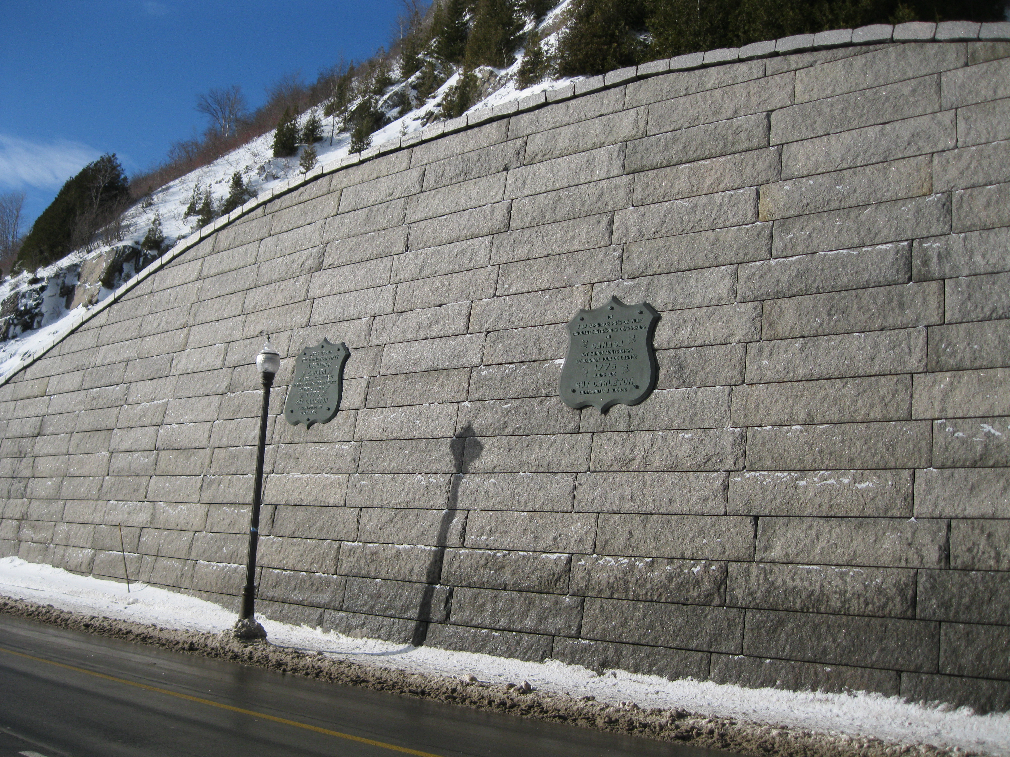 Plaque where is written : « HERE STOOD THE UNDAUNTED FIFTY SAFEGUARDING CANADA DEFEATING MONTGOMERY AT THE PRES-DE-VILLE BARRICADE ON THE LAST DAY OF 1775 GUY CARLETON COMMANDING AT QUEBEC », on a wall, along Champlain Boulevard, Lower Town, Old Quebec City